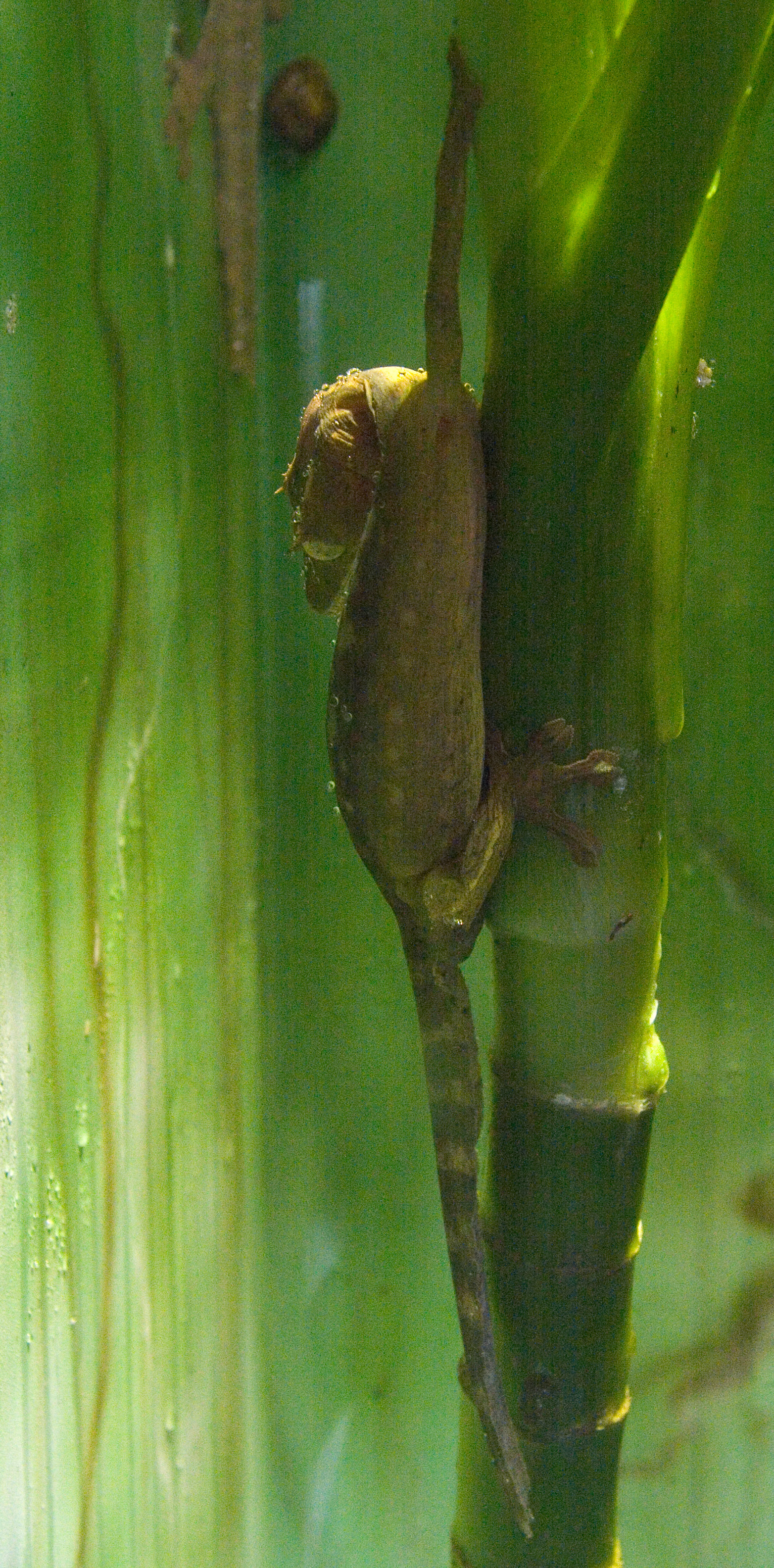 Uroplatus lineatus, lined leaf-tailed gecko. Taken at the Denver Zoo.